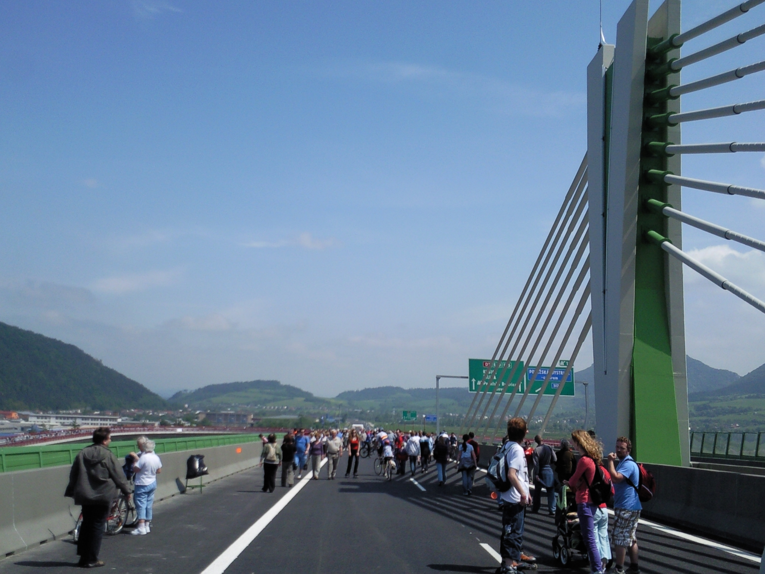 Viaduct in Povazska Bystrica